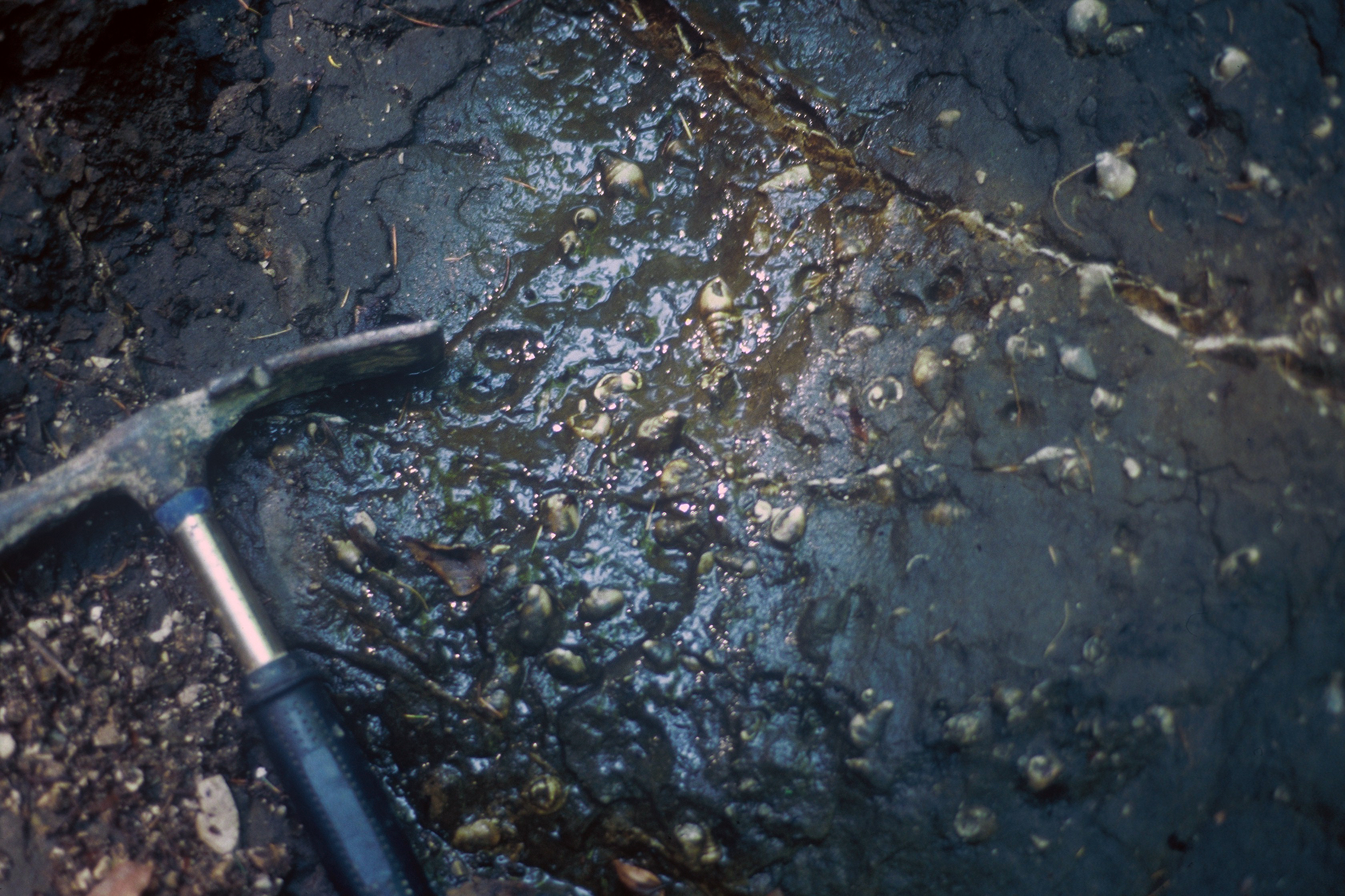 Fossils in Sandstone of the Lunzer Gosau-Formation